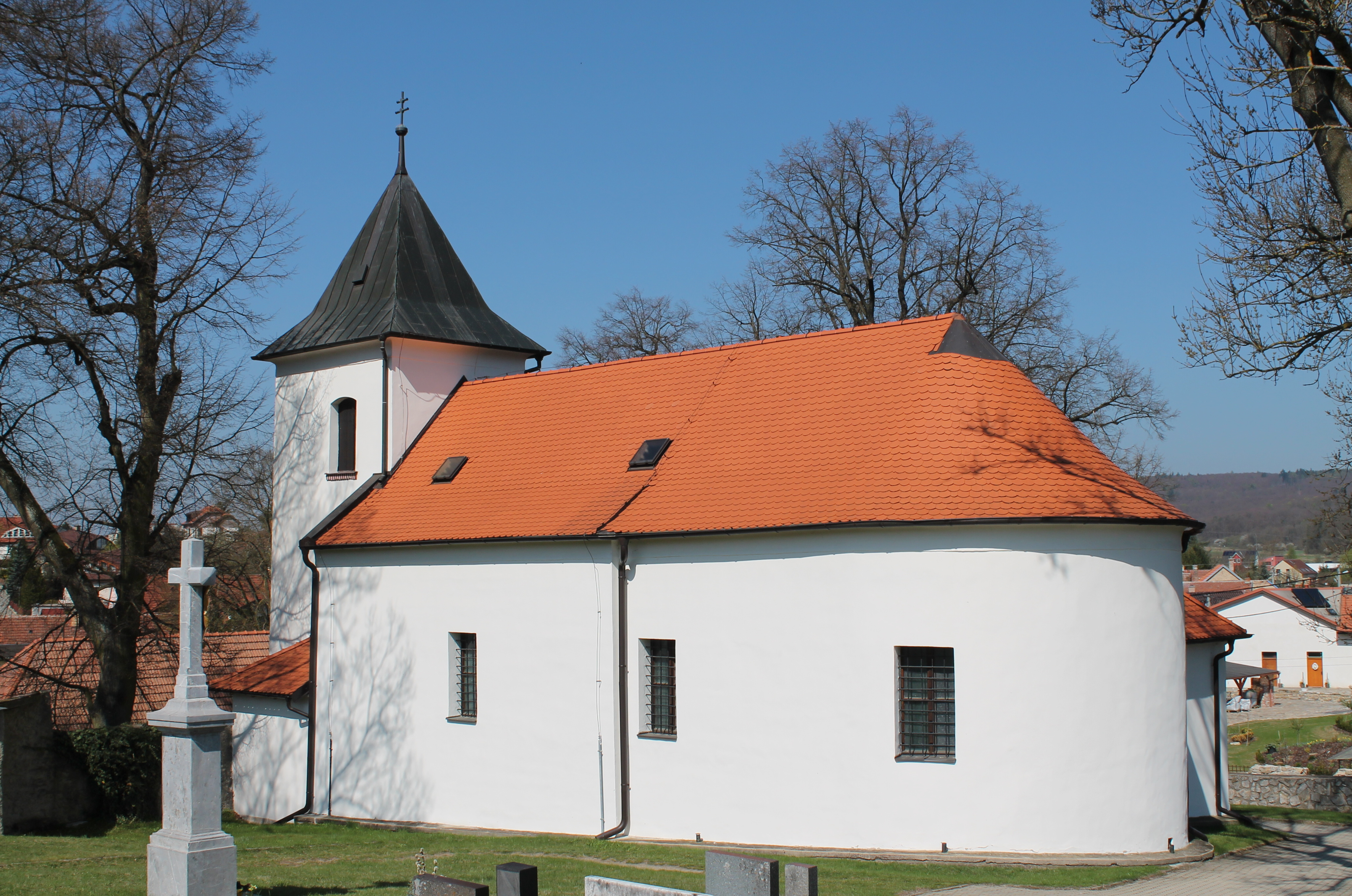 Church of Saint Wenceslaus, Ochoz u Brna, Brno-Country District, Czech Republic